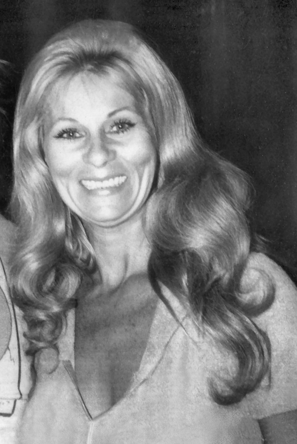 Actress Grace Lee Whitney at the first Science Fiction, Horror and Fantasy Awards on December 5, 1976.